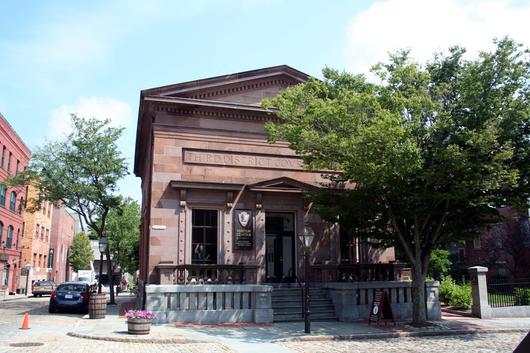 Photograph of the Visitor Center of New Bedford Whaling National Historical Park in New Bedford, Massachusetts, United States of America taken by Rolf Müller.